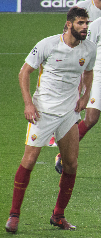 Chelsea VS. Roma 18 October 2017